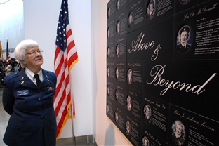 Elaine D. Harmon walks through the "Fly Girls of World War II" exhibit in Arlington, Virginia